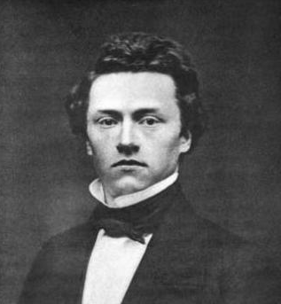 Tributes of the Bar and of the Supreme Judicial Court of the Commonwealth to the Memory of Walbridge Abner Field: Together with Memoirs Read Before the Massachusetts Historical Society By Massachusetts Bar, John Noble, Massachusetts Supreme Judicial Court, Massachusetts Historical Society Published by The University press, 1905